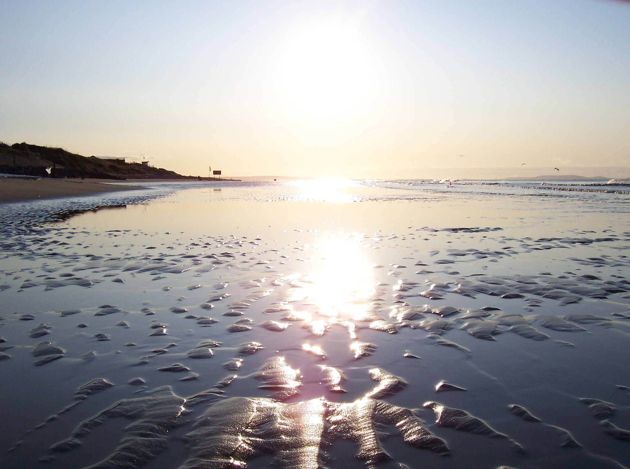 Pendine Sands early morning in September 2008, looking towards the MOD firing range